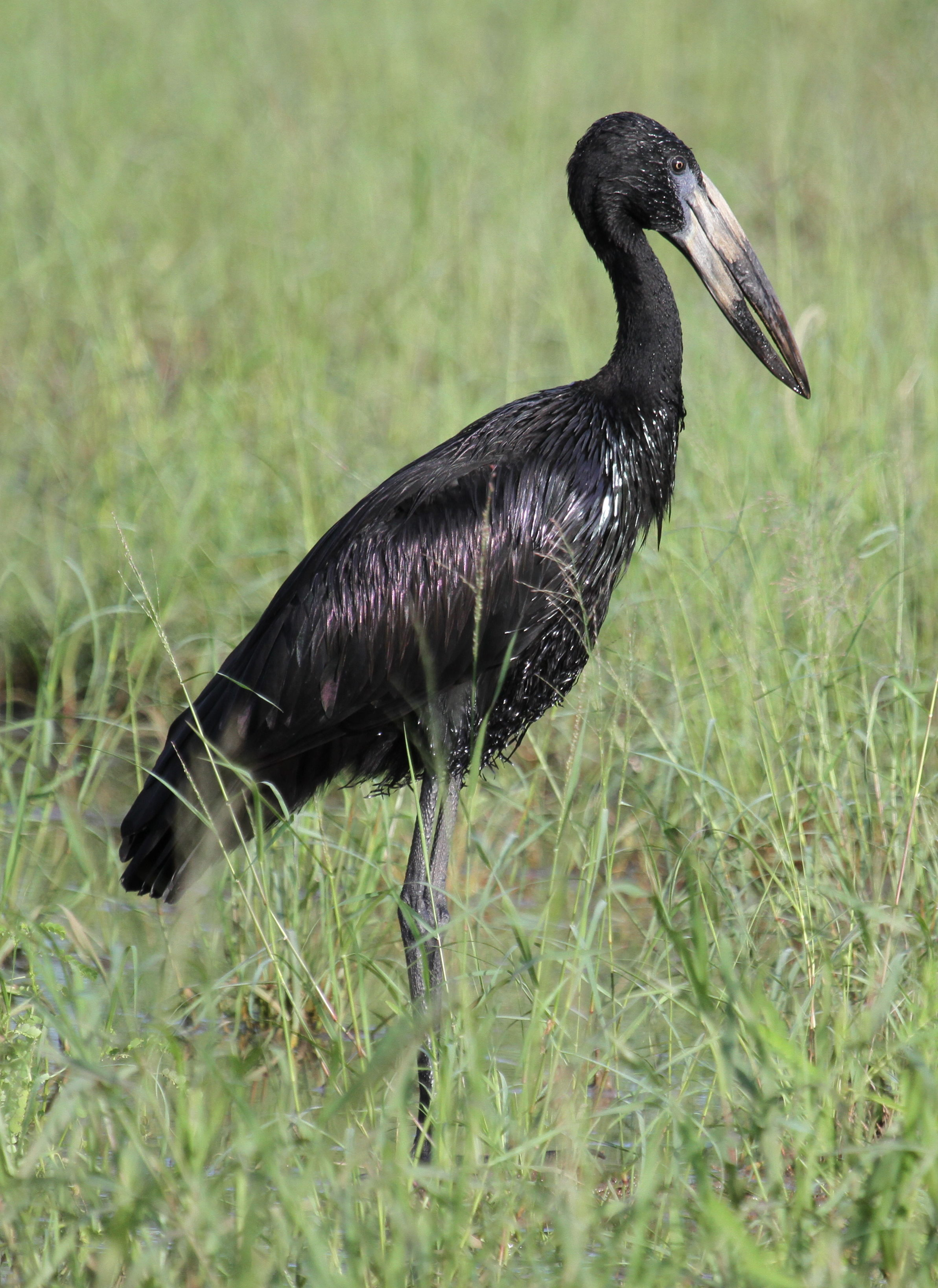 African openbill, Anastomus lamelligerus, at Kruger National Park, South Africa